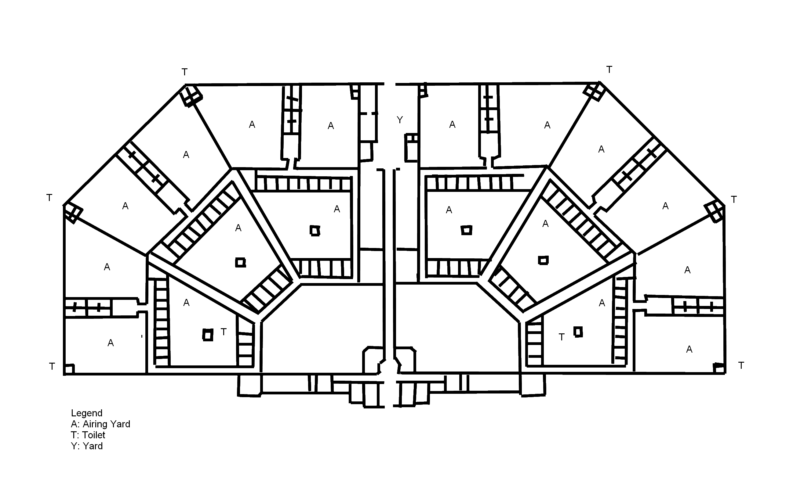 This is a diagram I have made based upon an original drawing (1811) by the architect Francis Johnston of the Richmond Penitentiary which was completed in 1818 (the foundation stone was laid in 1812). RIAI Murray Collection (92/46) Irish Architectural Archive